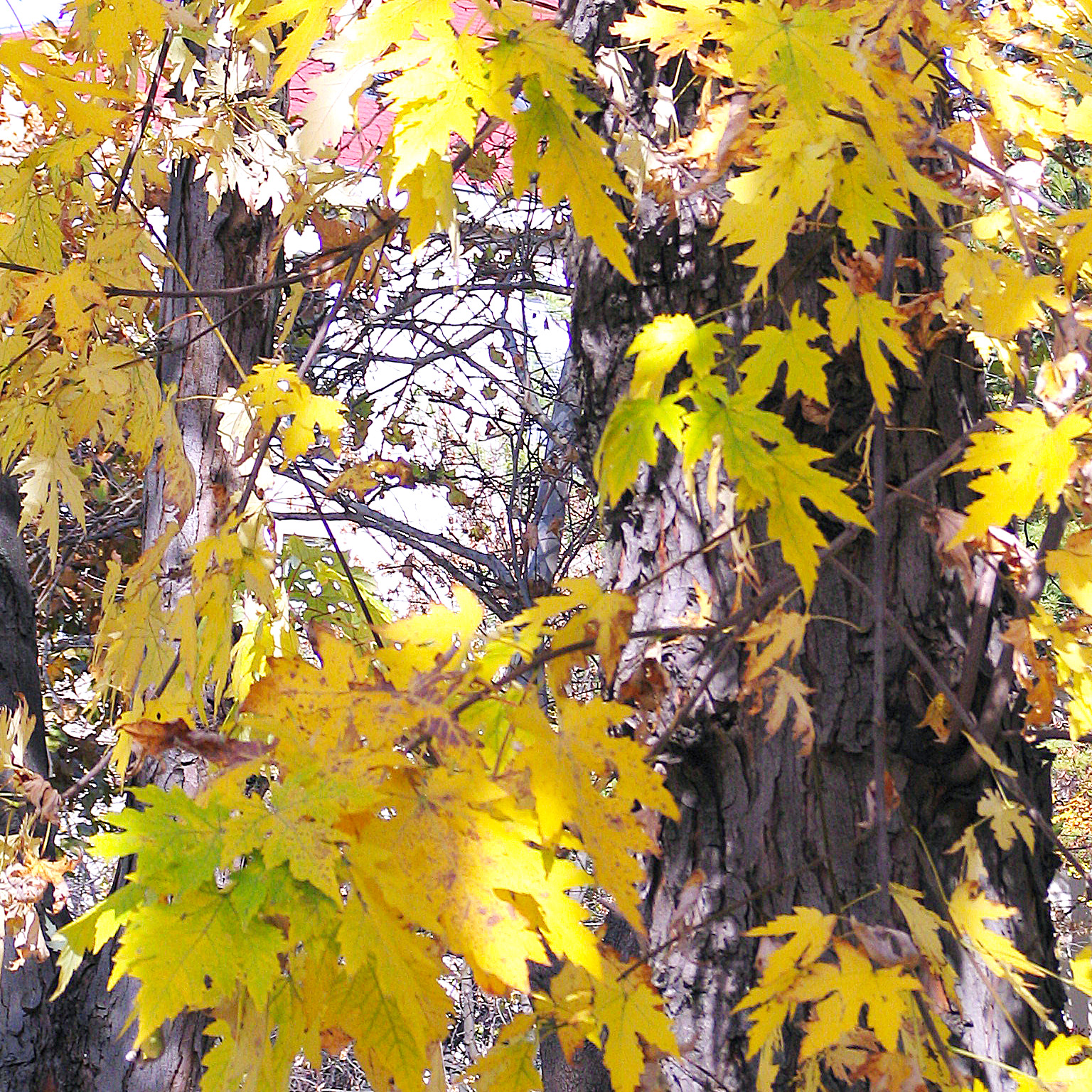 Acer saccharinum autumn color